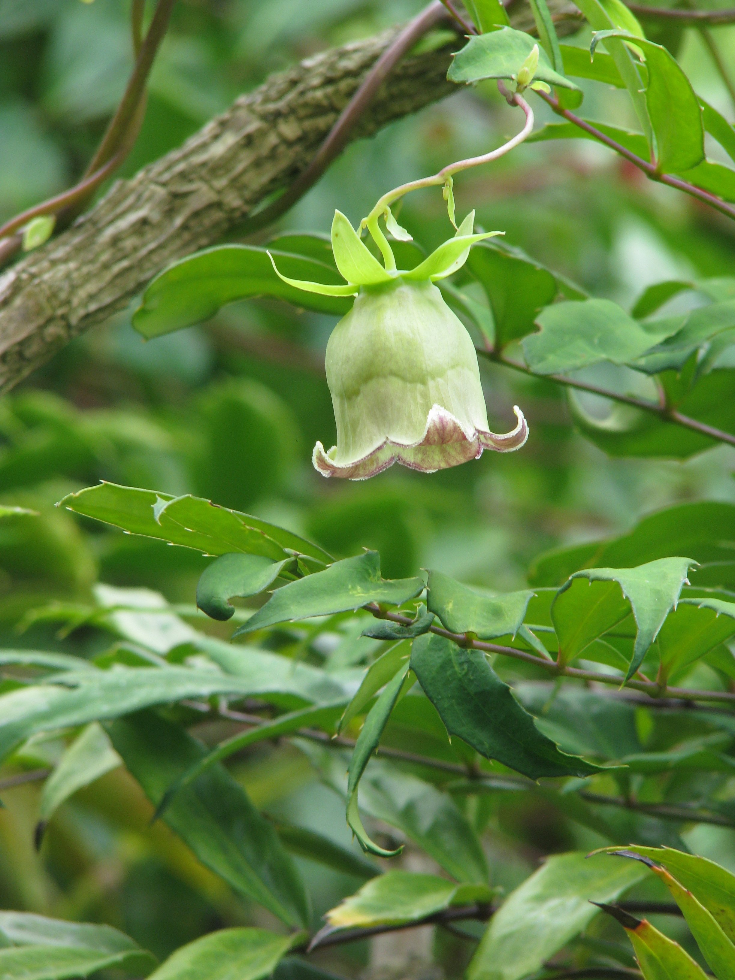 Clambering all over the Mahonia gracilipes and Schefflera taiwaniana